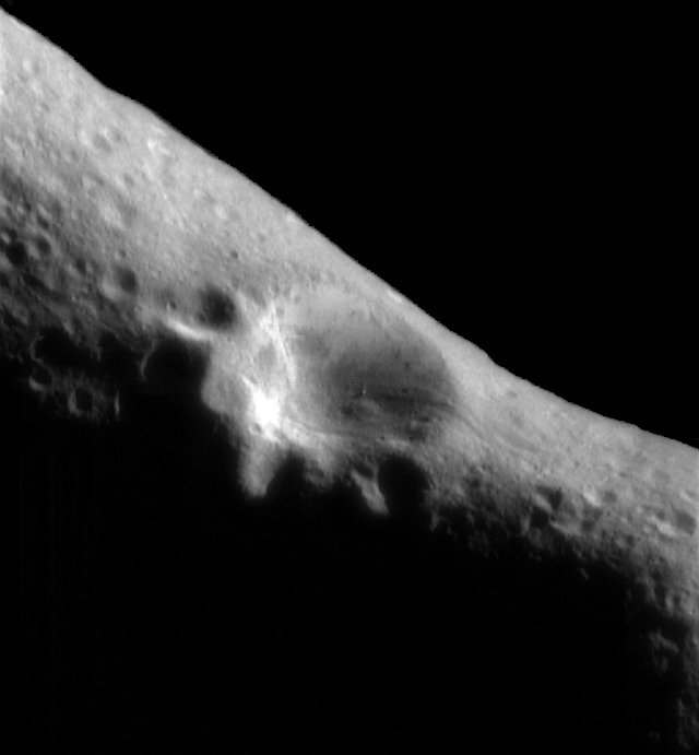 NEAR's historic first image from Eros orbit